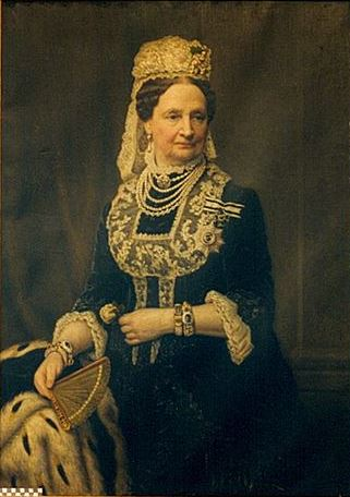 GesamtansichtDie Dargestellte an ihrem 75. Geburtstag stehend mit dunkelblau/ grünem Kleid, Spitzenbesatz, Perlenkette, Krone, Fächer in der rechten Hand, neben ihr ein Hermelinmantel. signiert unten rechts: rechts unten: Carl Jordan 1896